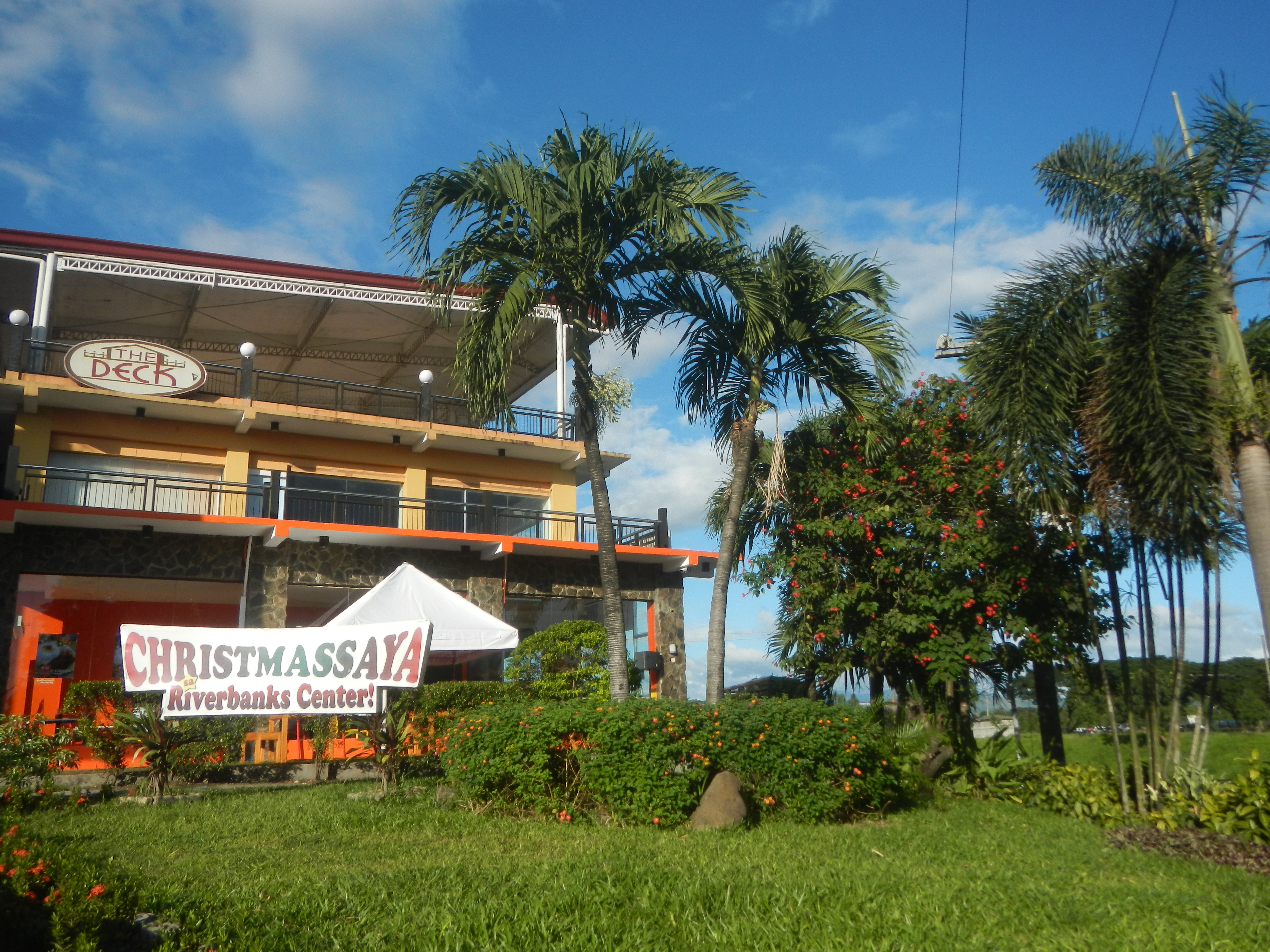 Marikina River Carabao statues List of landmarks and attractions of Marikina Marikina River Park Riverbanks Center beside or part of SM City Marikina 14°37'35"N 121°5'3"E Radial Road-6 in Barangays of Marikina Barangays Barangka (Marikina) and Calumpang, Marikina Marikina City (Note: Judge Florentino Floro, the owner, to repeat, Donor Florentino Floro of all these photos hereby donate gratuitously, freely and unconditionally all these photos to and for Wikimedia Commons, exclusively, for public use of the public domain, and again without any condition whatsoever).